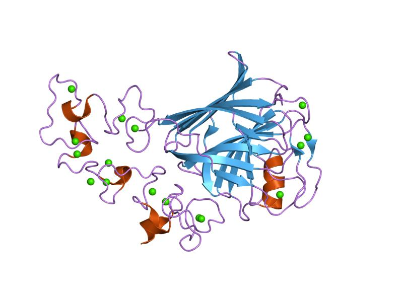 Cartoon representation of the molecular structure of protein registered with 1ux6 code.